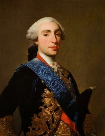 Philip I, duke of Parma (1720-1765)